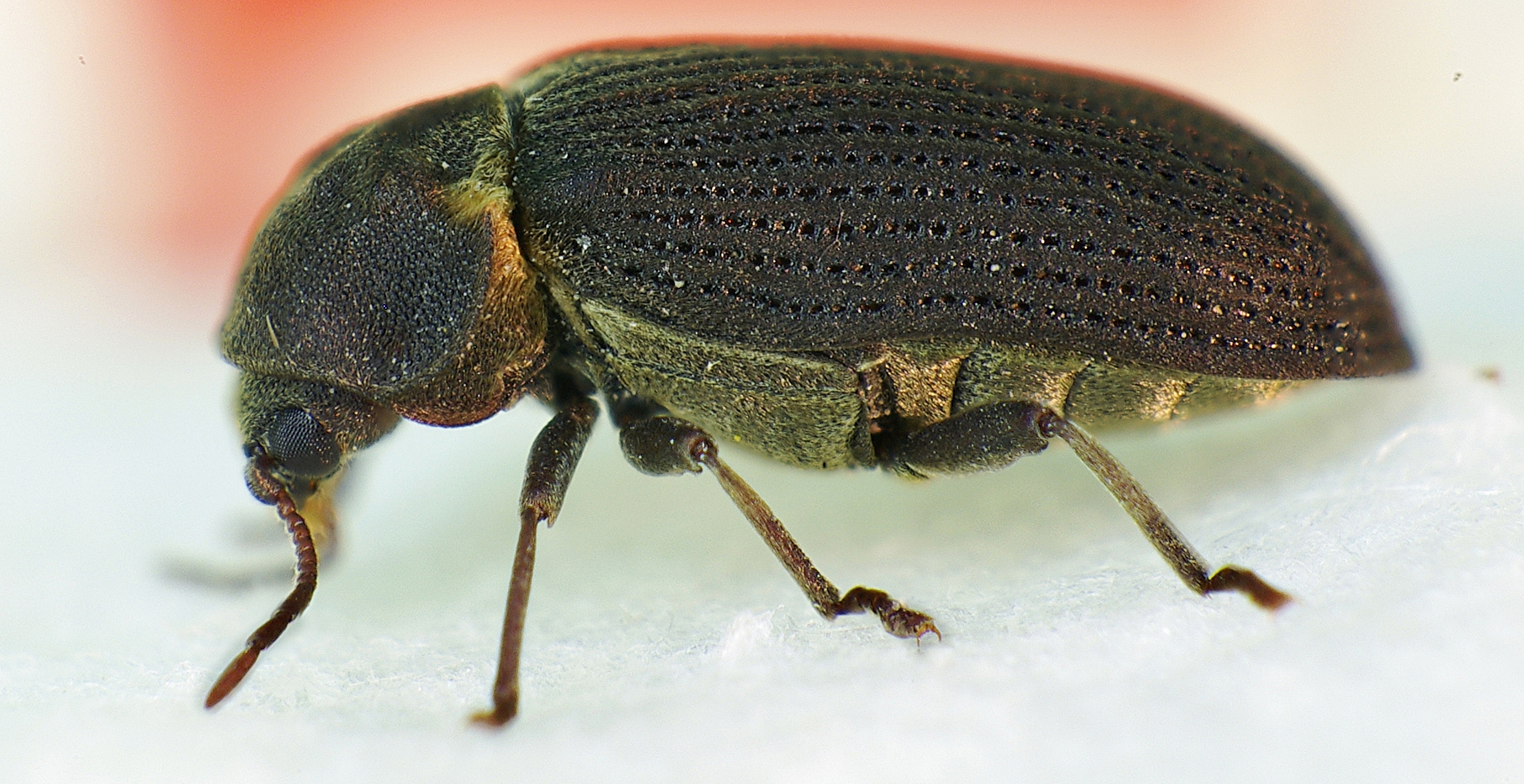 Side of Hadrobregmus pertinax